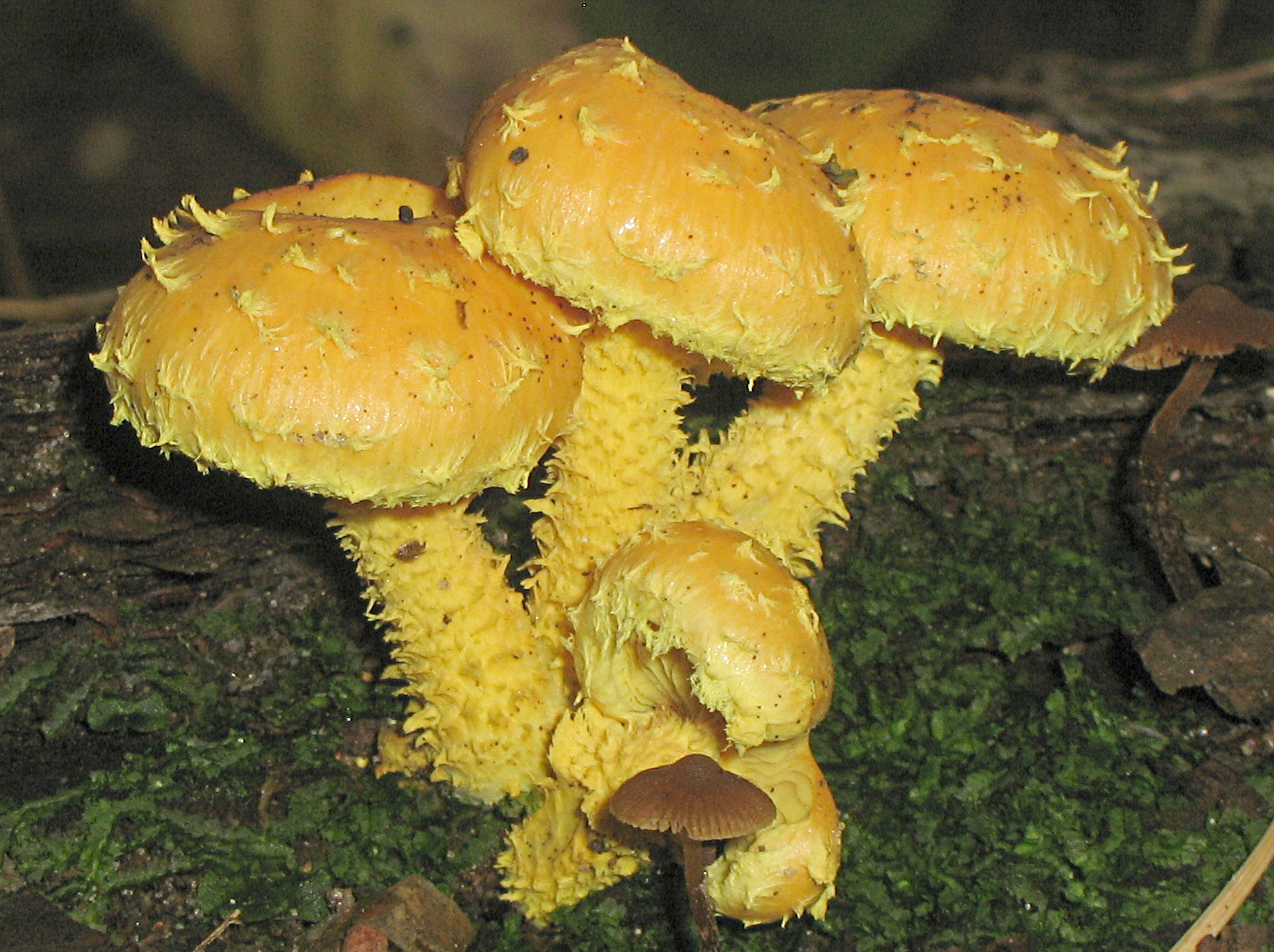 Pholiota flammans (Batsch) P. Kumm. Image location: Chernihiv, Ukraine On a rotten deck. Was not possible to know which tree it was. The deck was rotten and the whole covered with moss. Recognized by sight For more information about this, see the observation page at Mushroom Observer.